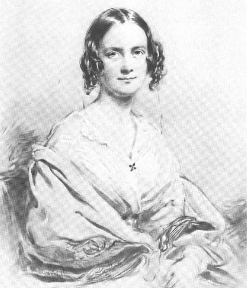 Water-color portrait of Emma Darwin (wife of Charles Darwin) from the late 1830s by George Richmond. Emma Wedgwood Darwin (1808-1896) in 1840, Charles Darwin's wife and first cousin, and daughter of the famous potter Josiah Wedgwood II.